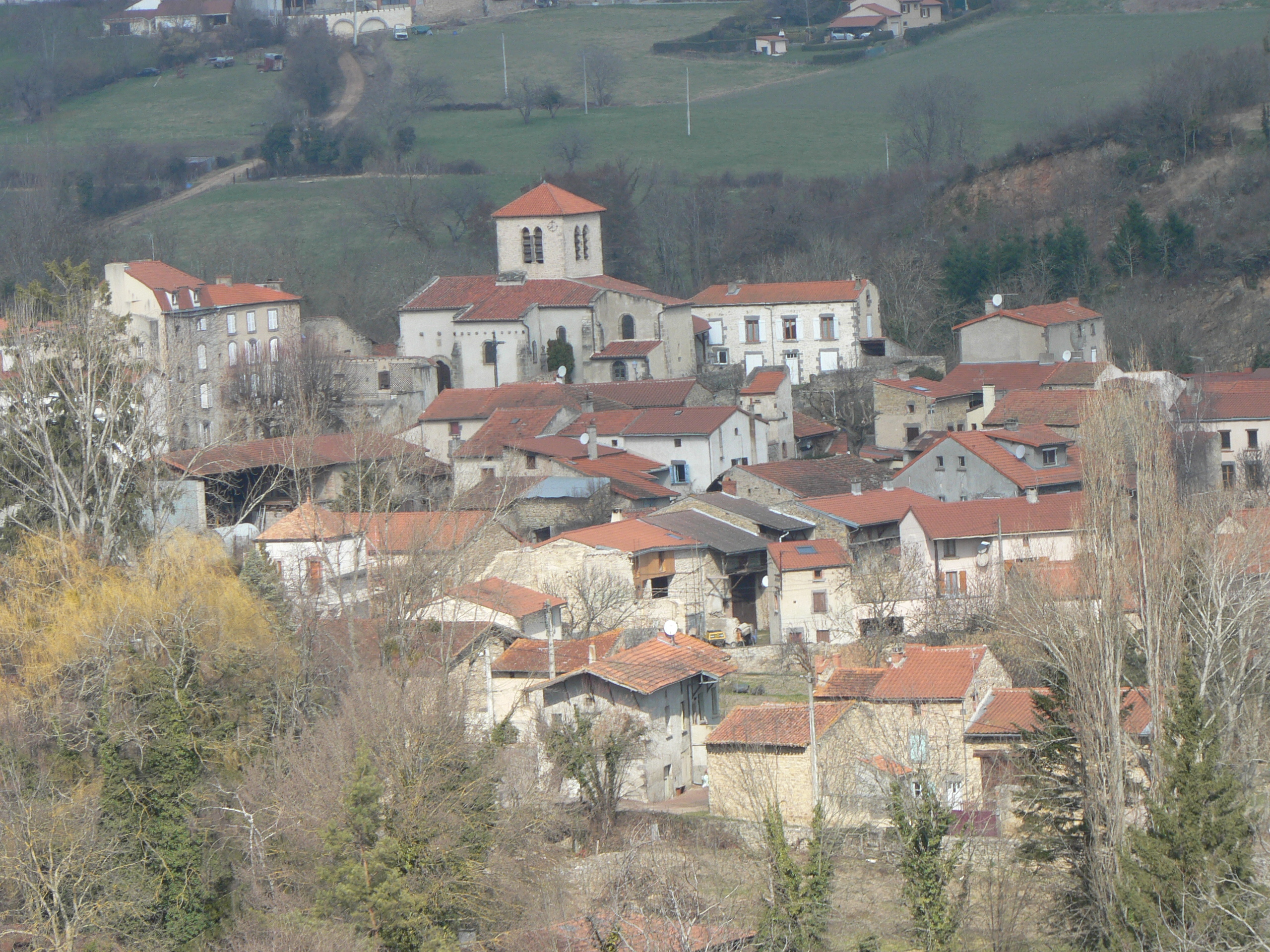 Village of Prompsat (Puy-de-Dôme, France).